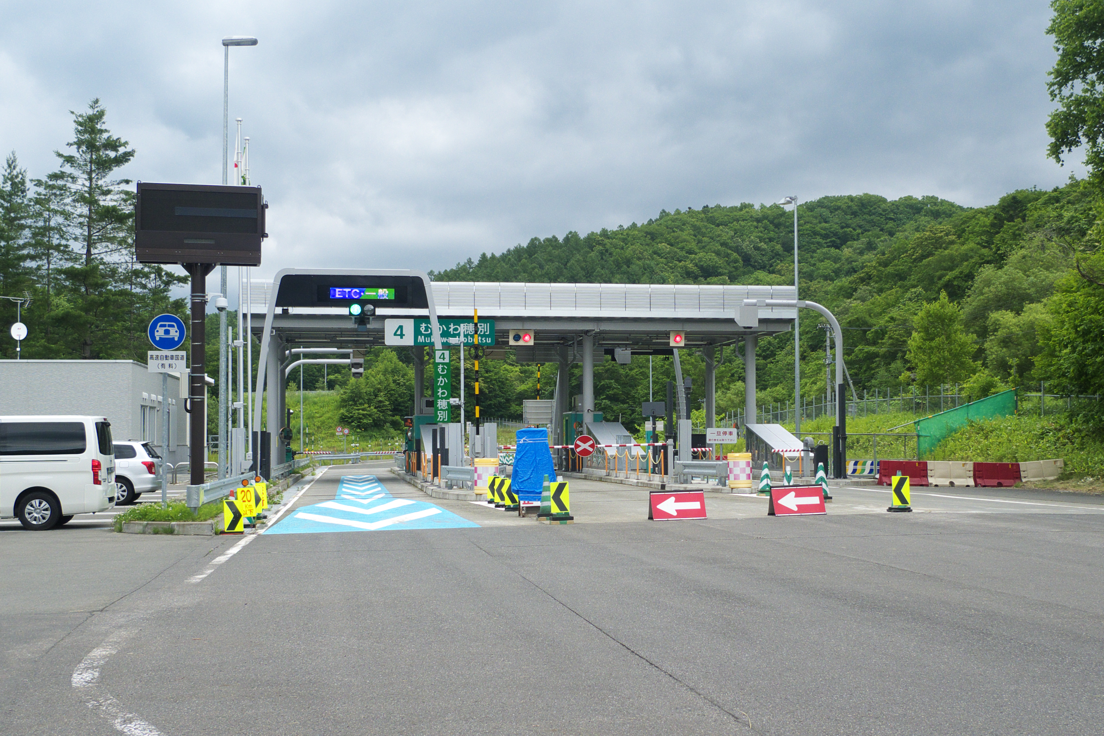 Doto Expressway Mukawa-Hobetsu Interchange in Mukawa Town, Hokkaido, Japan